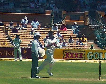 Image cropped, no other alterations from free image